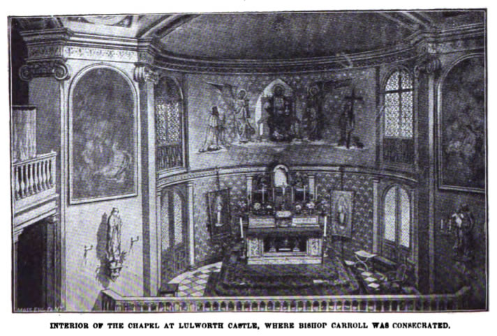 Interior of the chapel at Lulworth Castle, where John Carroll was ordained a bishop